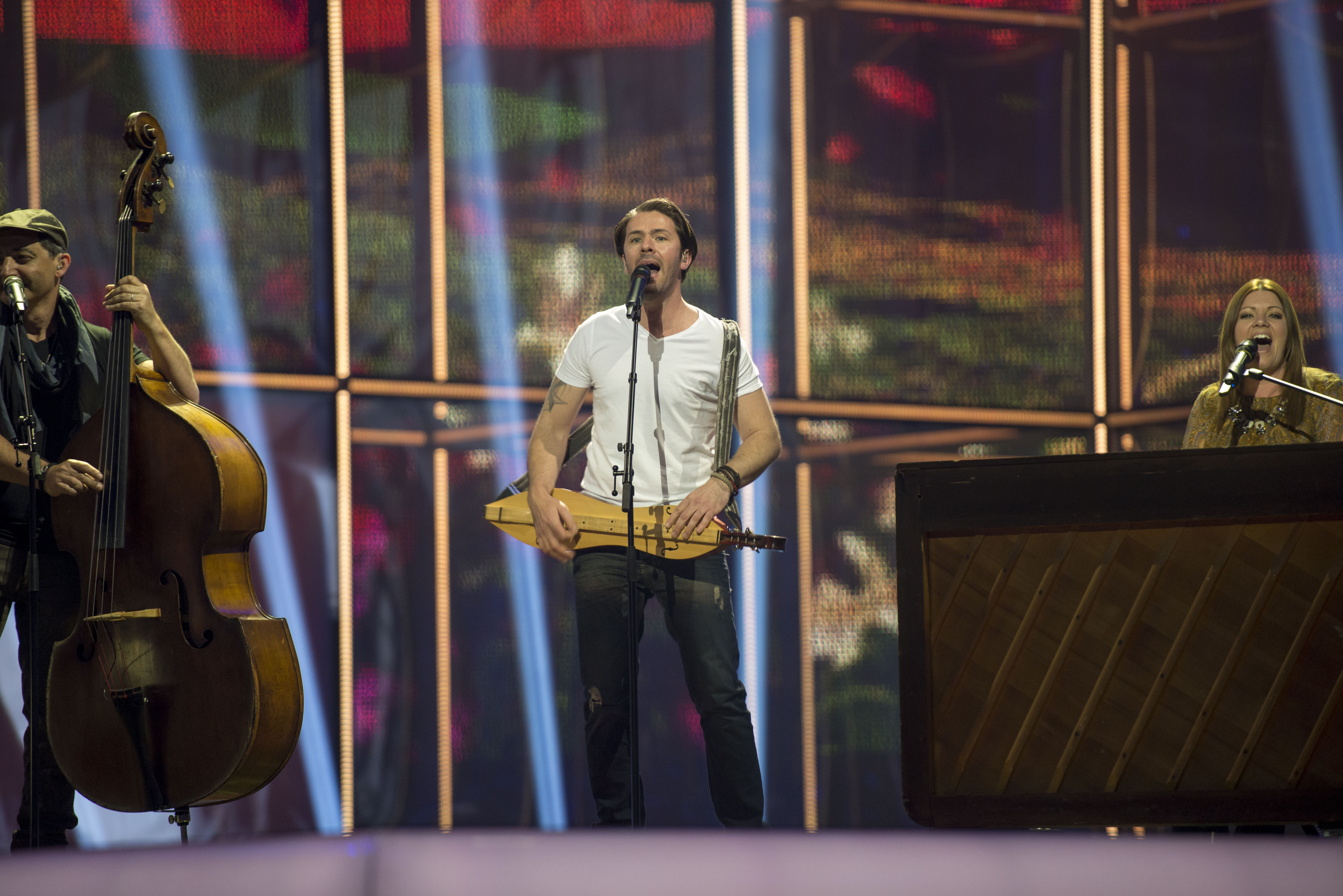 Firelight representing Malta with the song "Coming Home" during the first dress rehearsal of the second semi final of the Eurovision Song Contest 2014 Copenhagen. (Help translate this text)